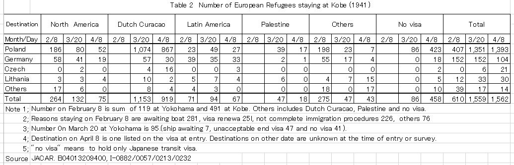 to understand Jewish refugees who were saved by Sugihara visa